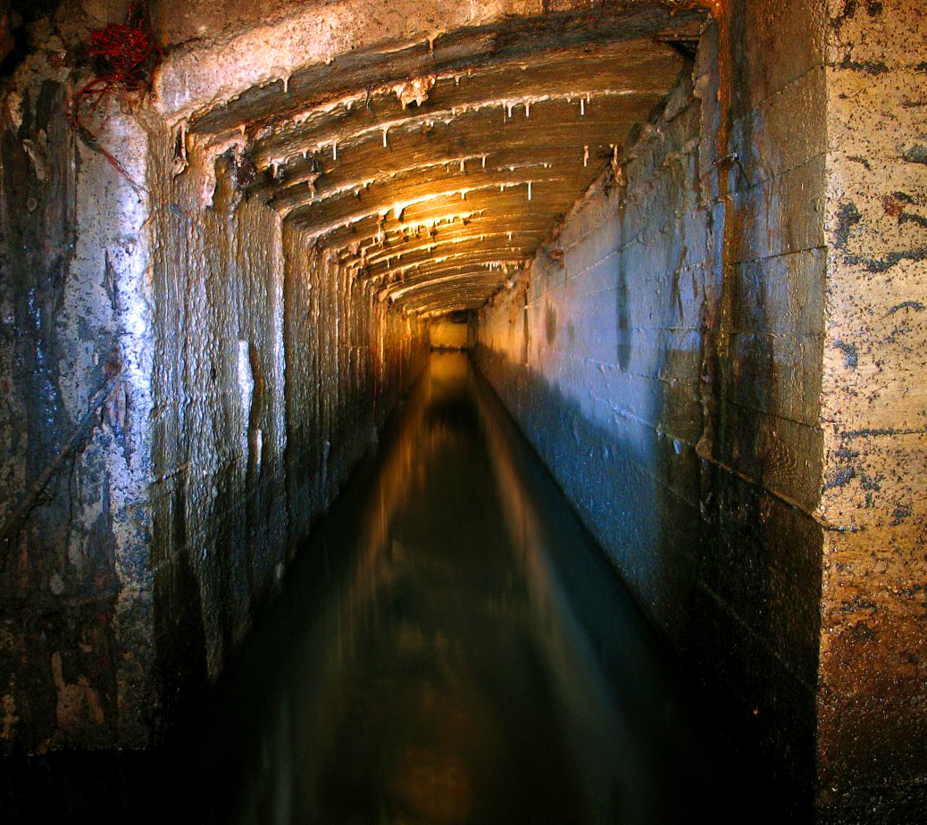 An underground stormwater drain.